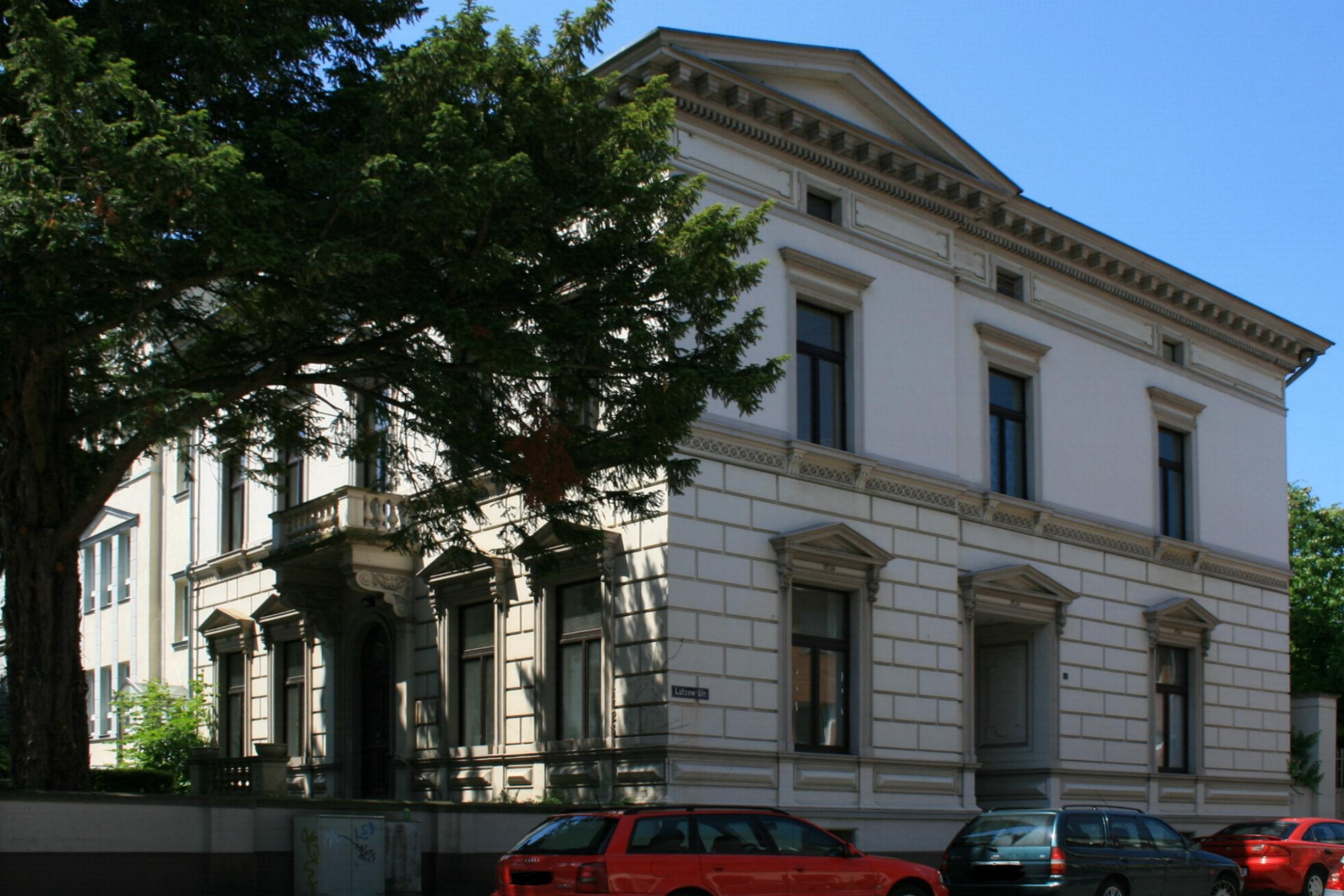 Cultural heritage monument No. L 018 in Mönchengladbach